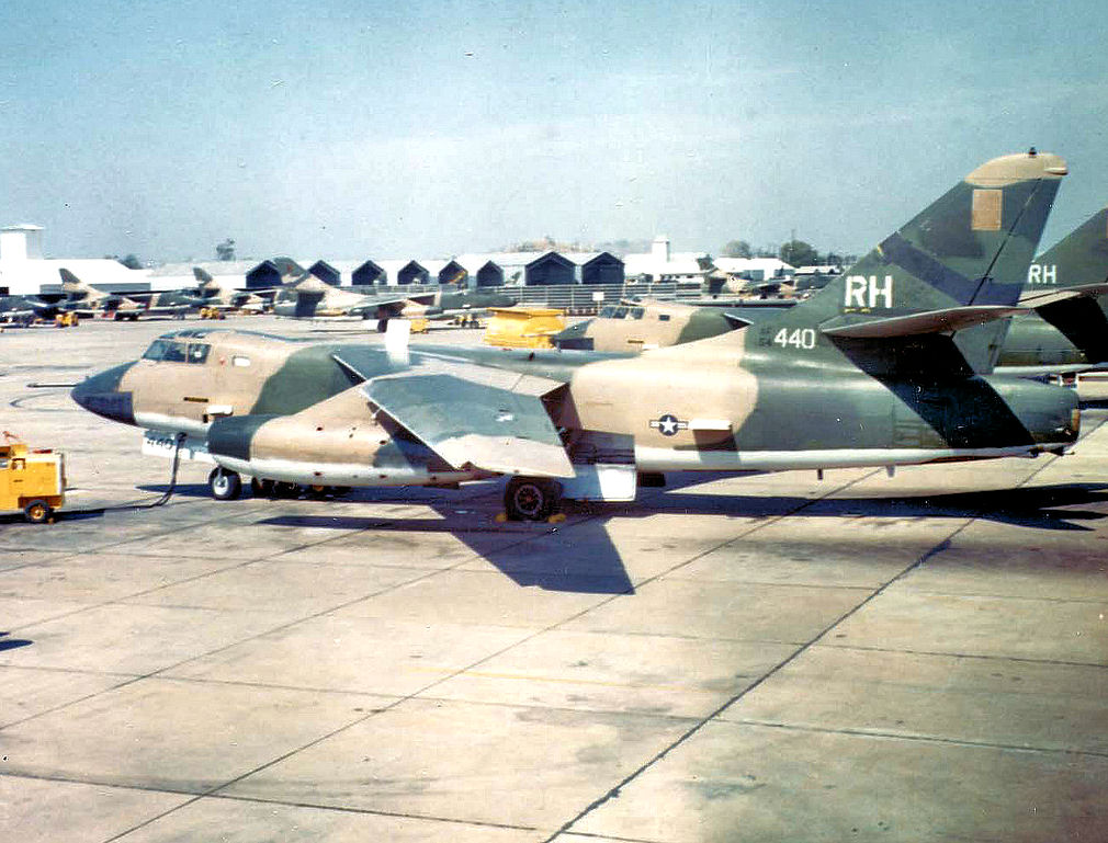 Douglas EB-66E Destroyer side view. Aircraft originally an RB-66B (S/B 54-440) of the 42nd TEWS, 355th TFW Takhli RTAFB taken Dec. 25, 1968. Douglas RB-66B-DL Destroyer 54-440 (U.S. Air Force photo)